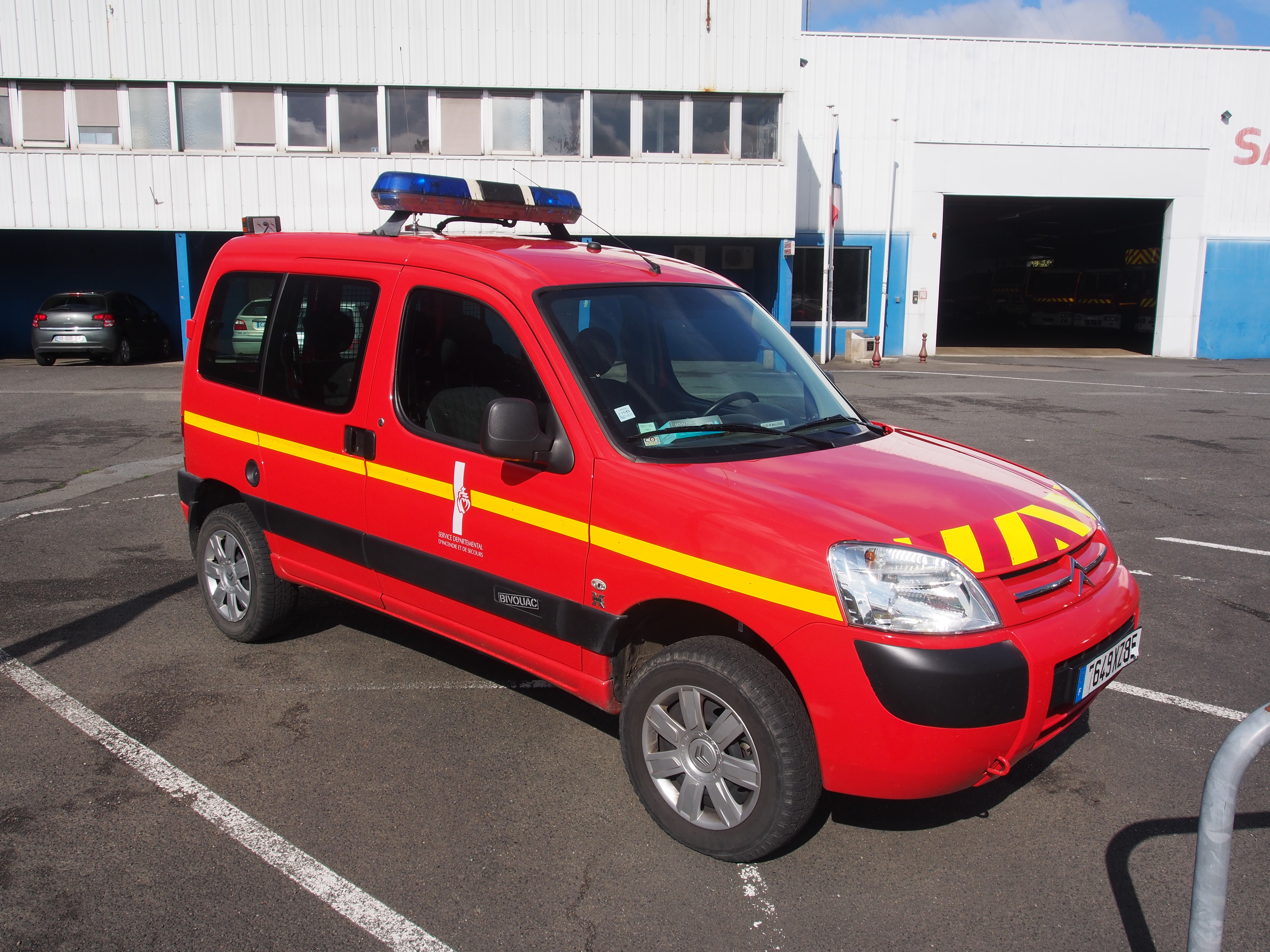 Photographed in France.